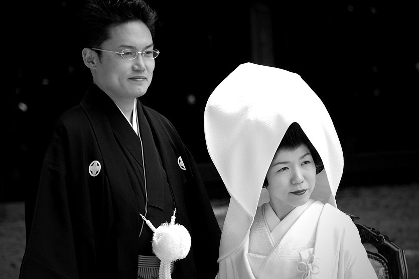 Japanese Wedding Day The Japanese bride-to-be is painted pure white from head to toe, visibly declaring her maiden status to the gods. The bride wears a white kimono and an elaborate headpiece covered with many ornaments to invite good luck to the happy couple. A white hood is attached to the kimono, which the bride wears like a veil to hide her 'horns of jealousy' from the groom's mother, who will now become the head of the family. Japanese grooms wear black kimonos to their wedding ceremony. Read more here.